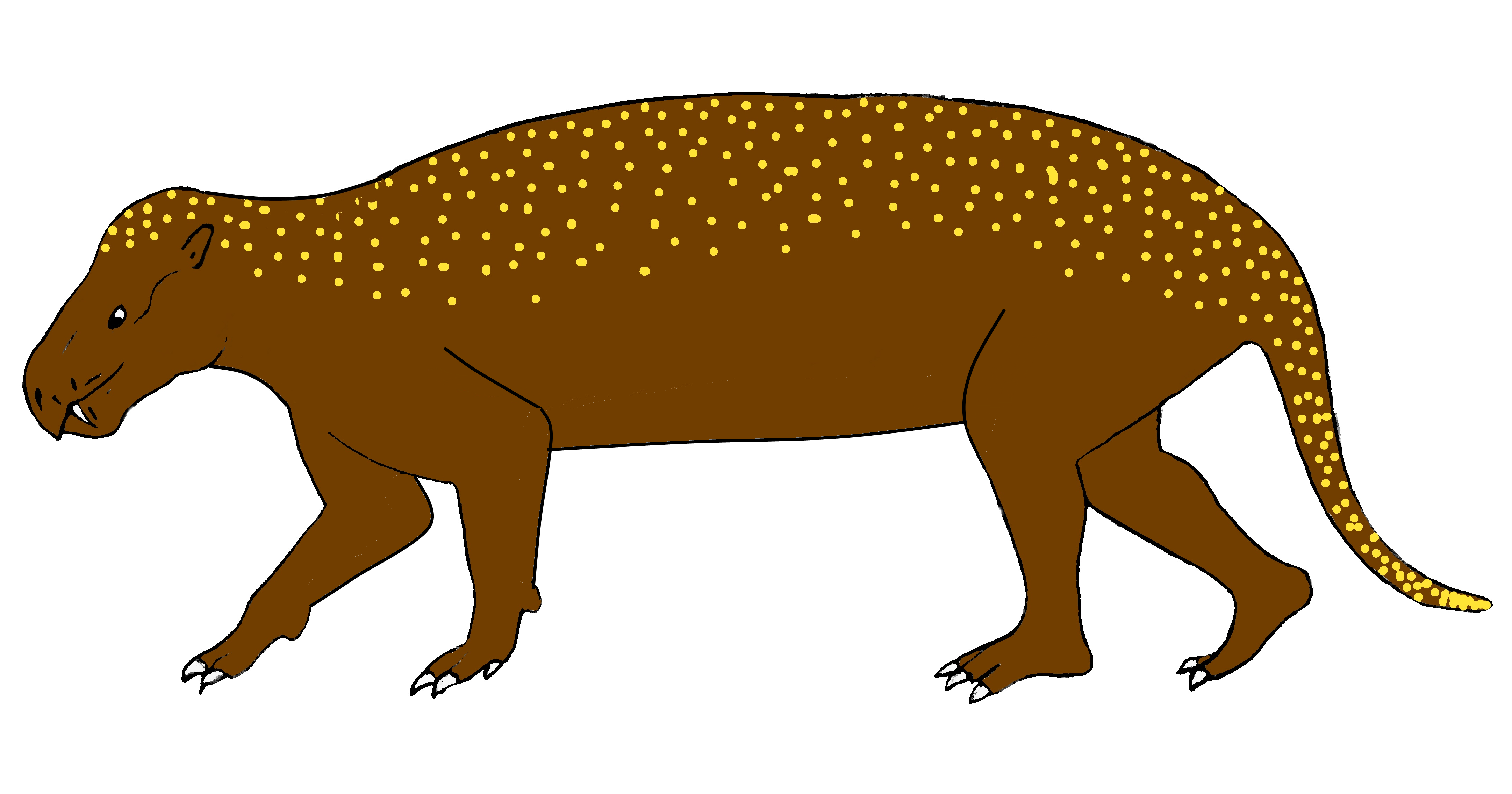 Dinocerata Prodinoceras plantigradum (Mongolotherium plantigradum)